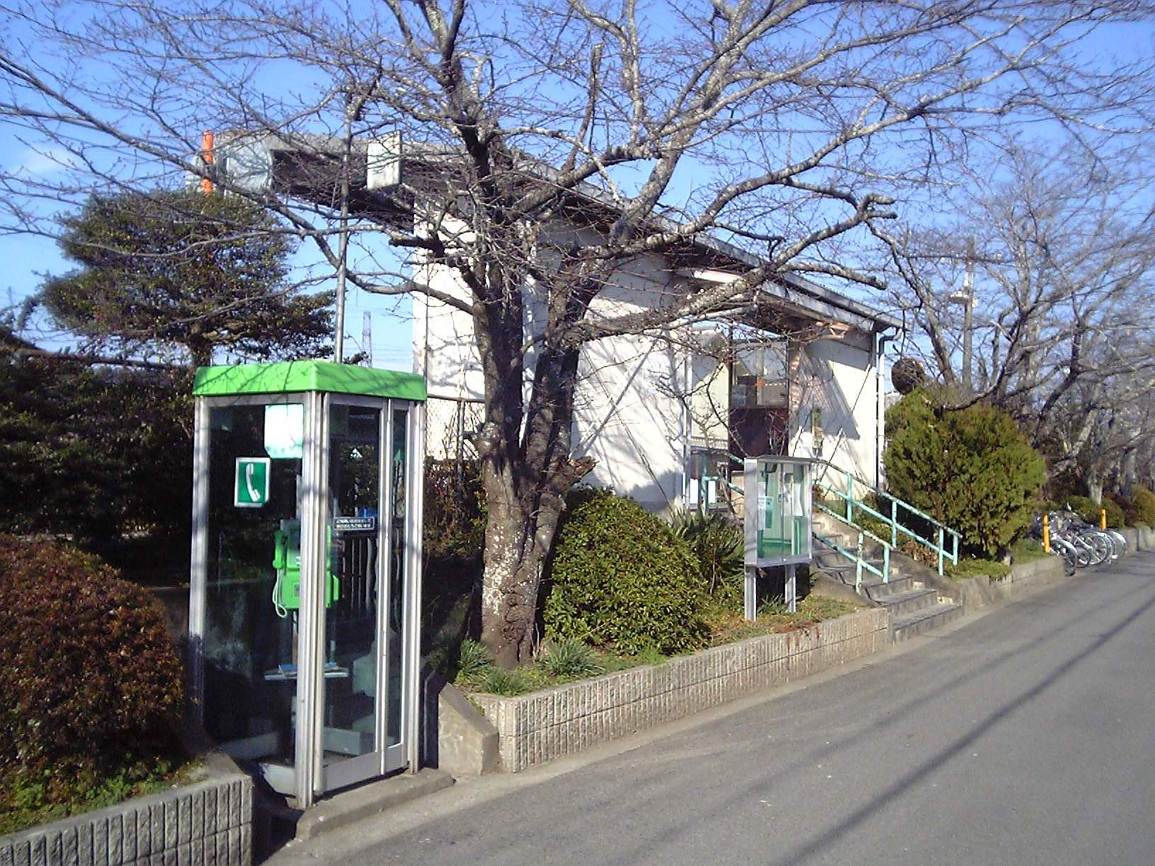 Shimo-Hyogo Station on Wakayama Line